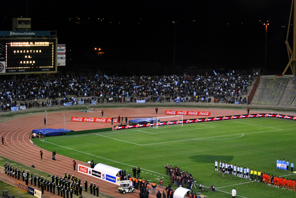 Argentina vs Ghana, played in the Estadio Córdoba (now called "Mario Alberto Kempes") in 2009.